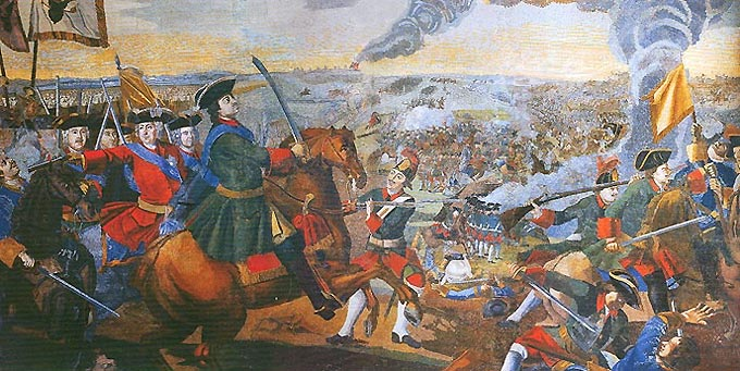 Battle of Poltava. M. Lomonosov's mosaic. Academy of Sciences. S.-Petersburg. 1762–1764